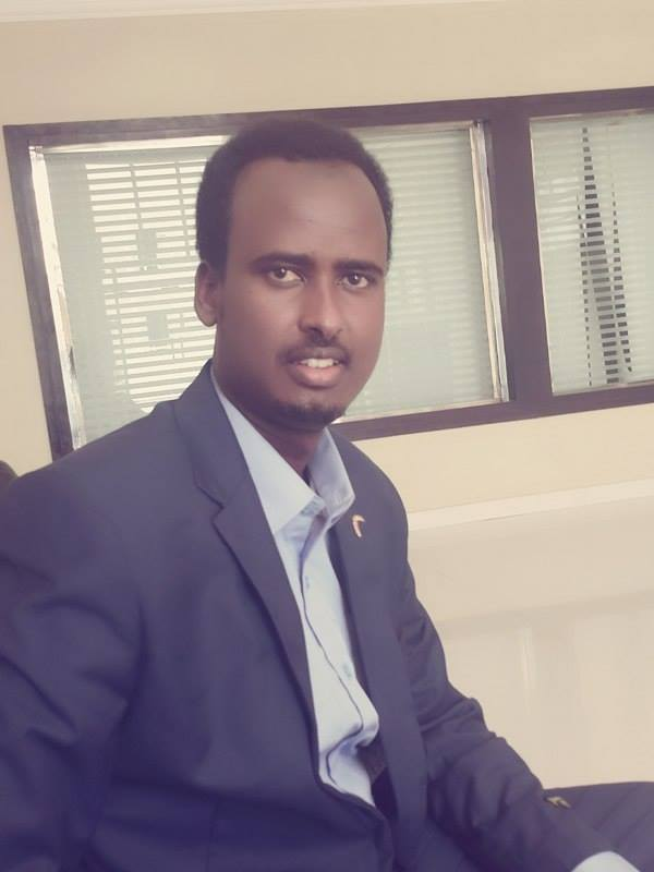 Mohamed Ahmed Kunle, Research officer